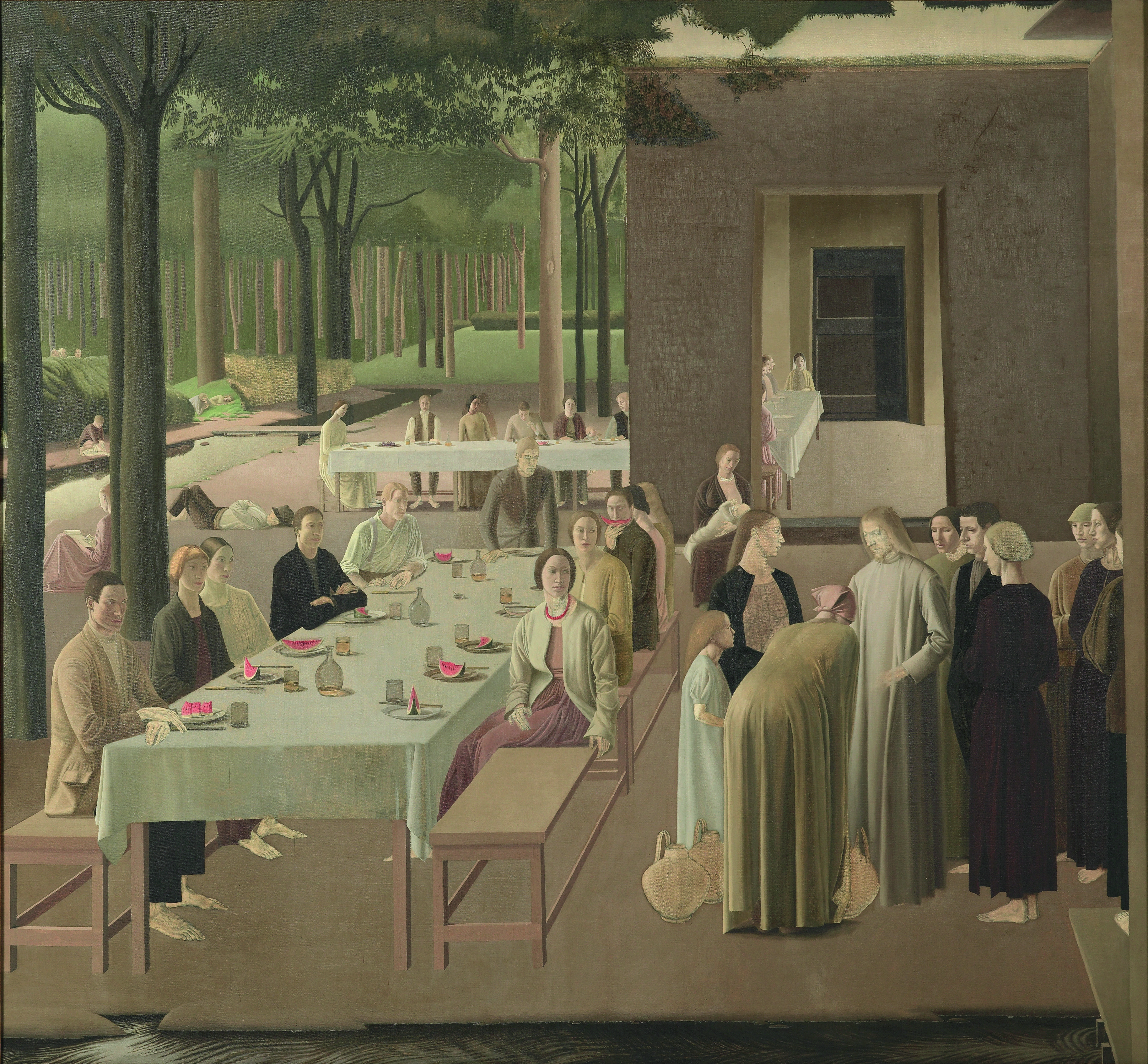 The Marriage at Cana by Winifred Knights, 1923, oil on canvas, 184 x 200 cm, Museum of New Zealand Te Papa Tongarewa